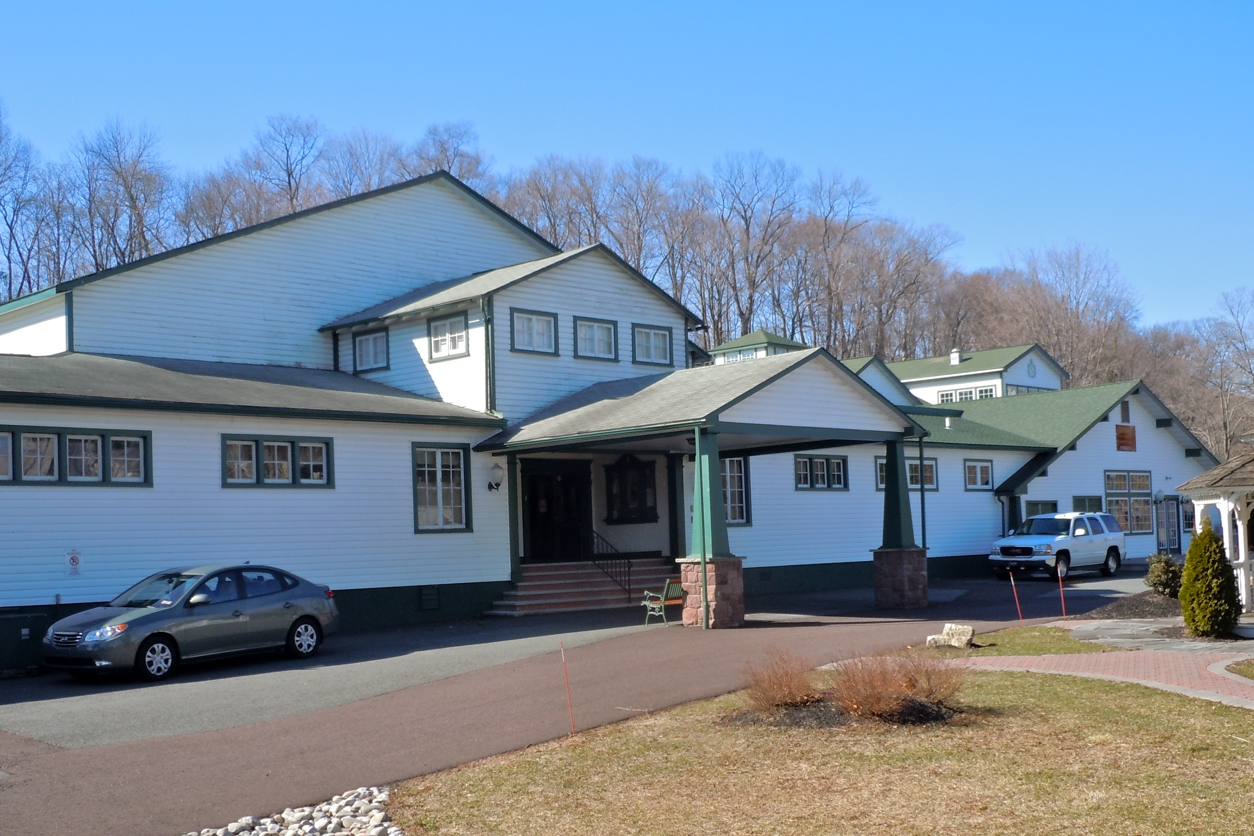 Sunnybrook on the NRHP since August 11, 2005. At 50 Sunnybrook Road, just off High Street, Lower Pottsgrove Township (just outside Pottstown), Montgomery County, Pennsylvania. I believe it was originally used as a Ballroom and maybe still is. Now there is some entertainment (a bar at least) and maybe some condos. Undergoing some sort of reconstruction.